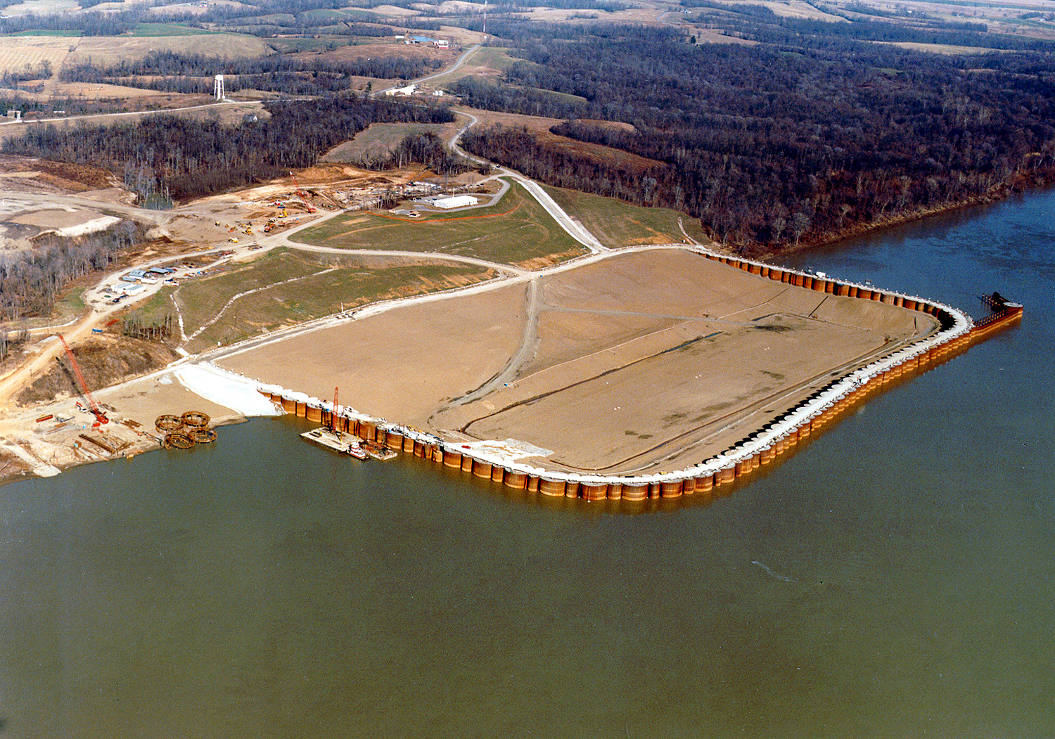 A cofferdam on the Ohio River near Olmsted, Pulaski County, Illinois, USA. The cofferdam was constructed by the U.S. Army Corps of Engineers for the purpose of constructing the Olmsted Locks and Dam on the Ohio River.